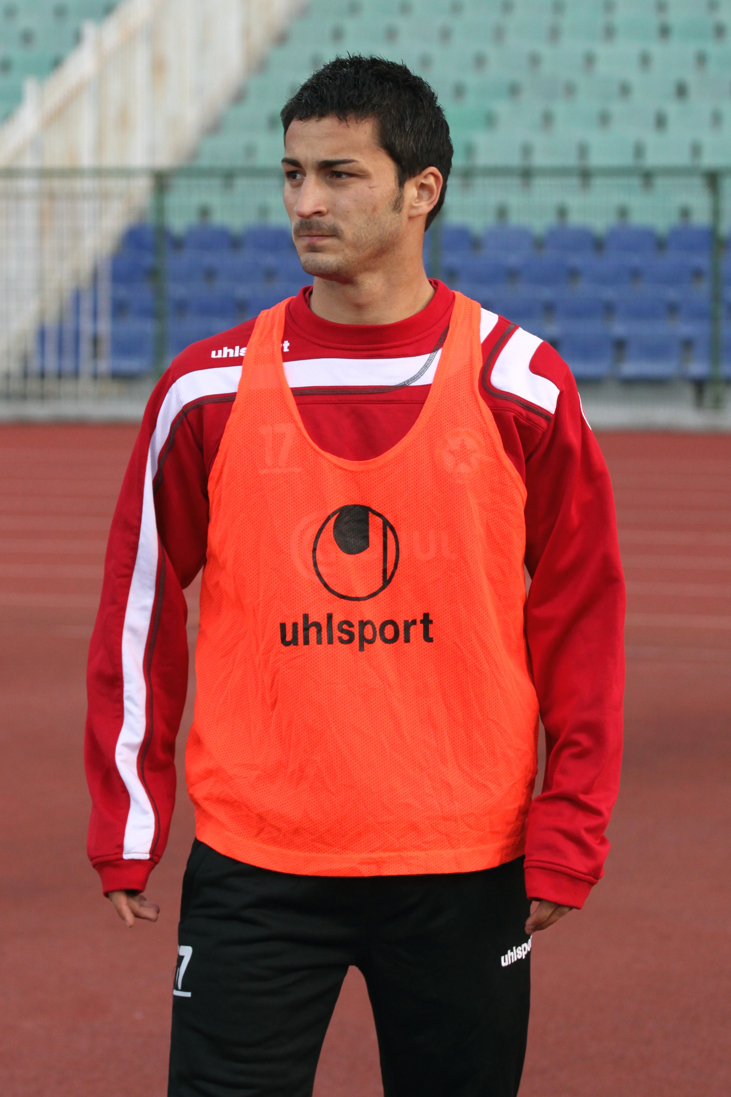 Chetin Sadula (Bulgarian: Четин Садула, Turkish: Sadullah Çetin) (born 16 June 1987) is a Bulgarian footballer of Turkish ethnicity, currently playing for CSKA Sofia as a midfielder. He is a right midfielder who plays in the holding midfield role or as an attacking midfielder